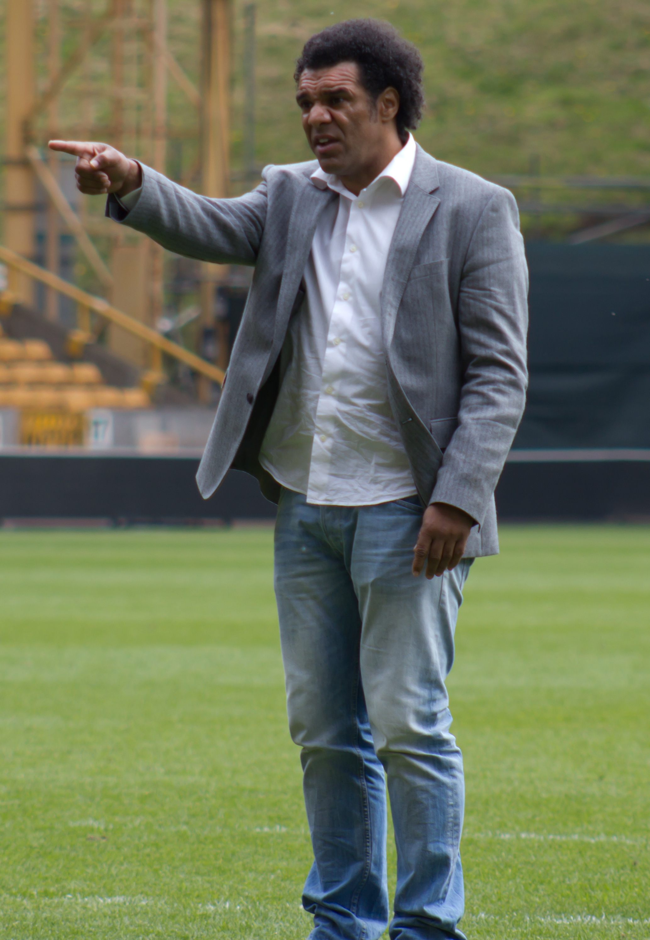 Don Goodman during Jody Craddock testimonial game.